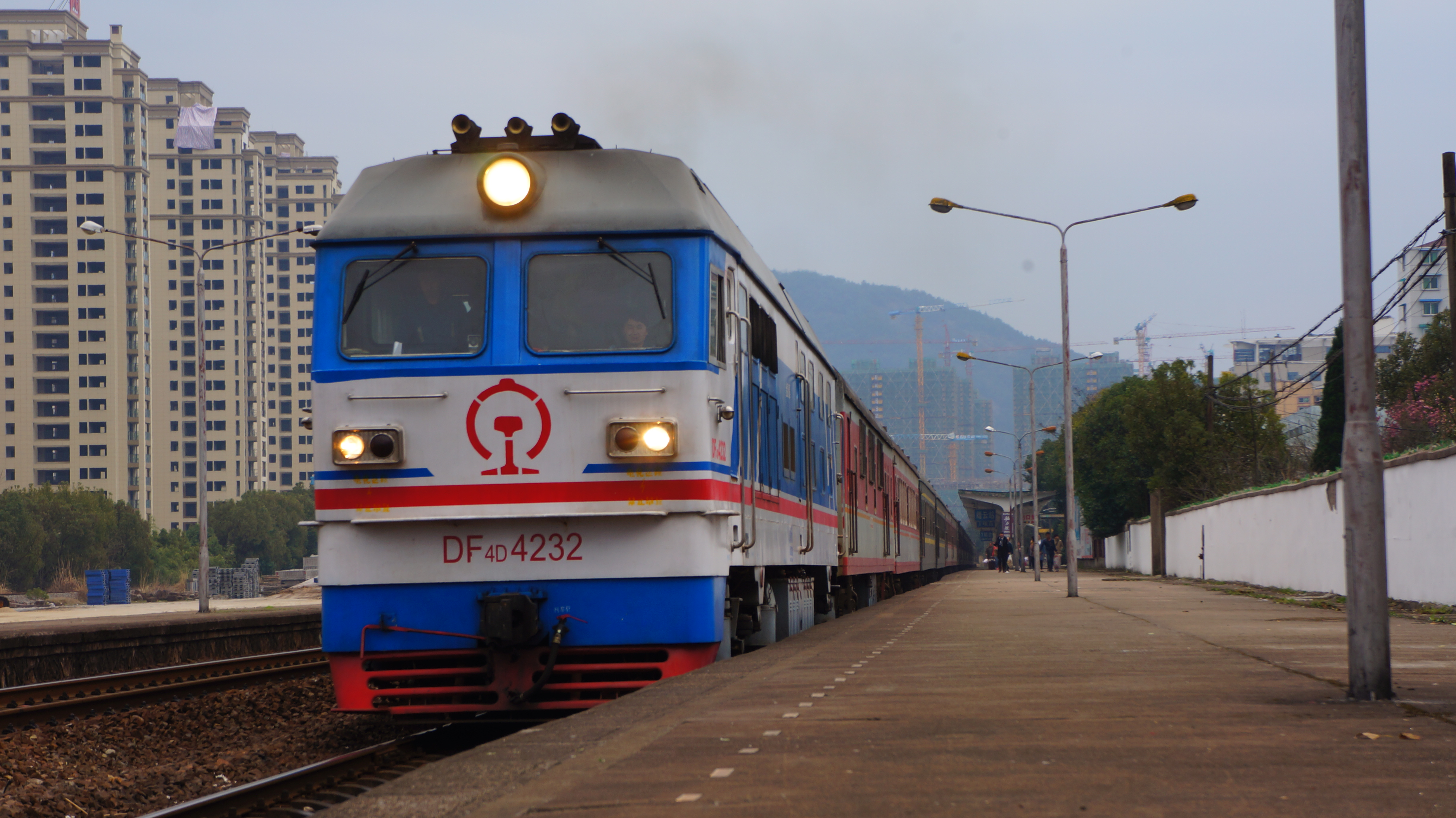 201603 K1238 enters Jinyun Station